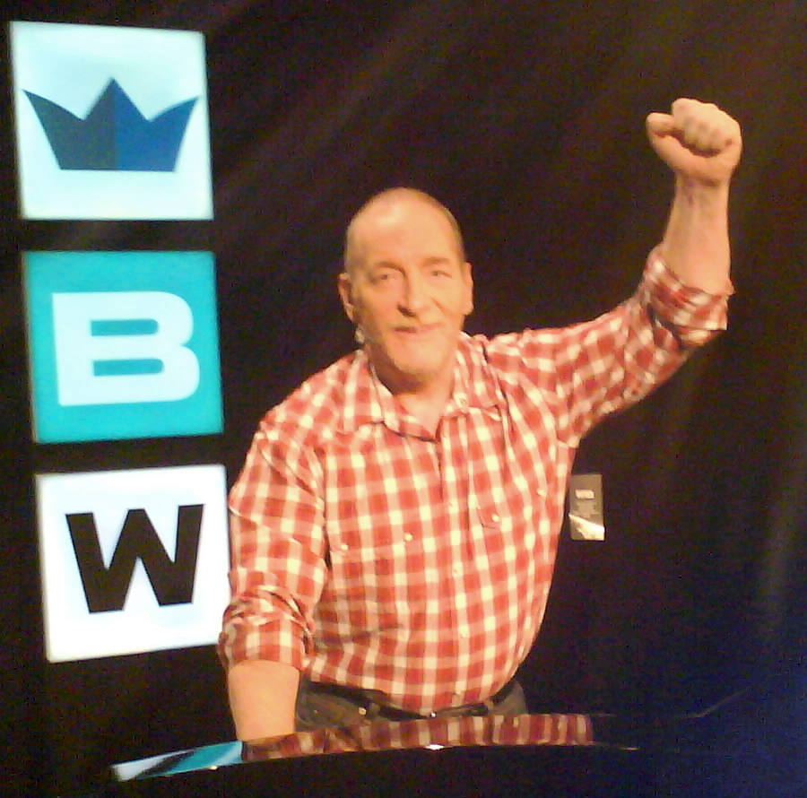 Swedish weight lifter, chef, TV host Lennart "Hoa-Hoa" Dahlgren at the set of the Swedish version of the TV programme "Know it all". Tyngdlyftaren Lennart "Hoa-Hoa" Dahlgren som programledare för TV-frågesporten "Besserwisser", hösten 2007.